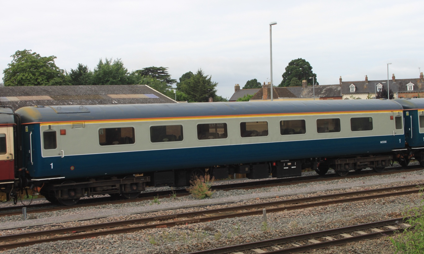 Former British Rail Mark 2f First open (FO) coach 3356. It has been painted in British Rail blue and grey livery and is at Taunton with other Riviera Trains' coaches that have been used for an excursion the previous day.